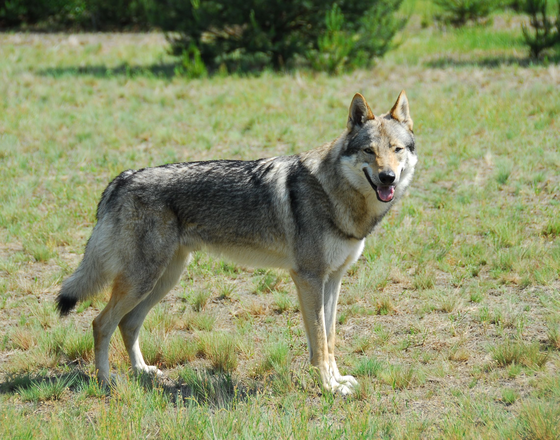 Czechoslovakian Wolfdog: Eligo z Peronówki